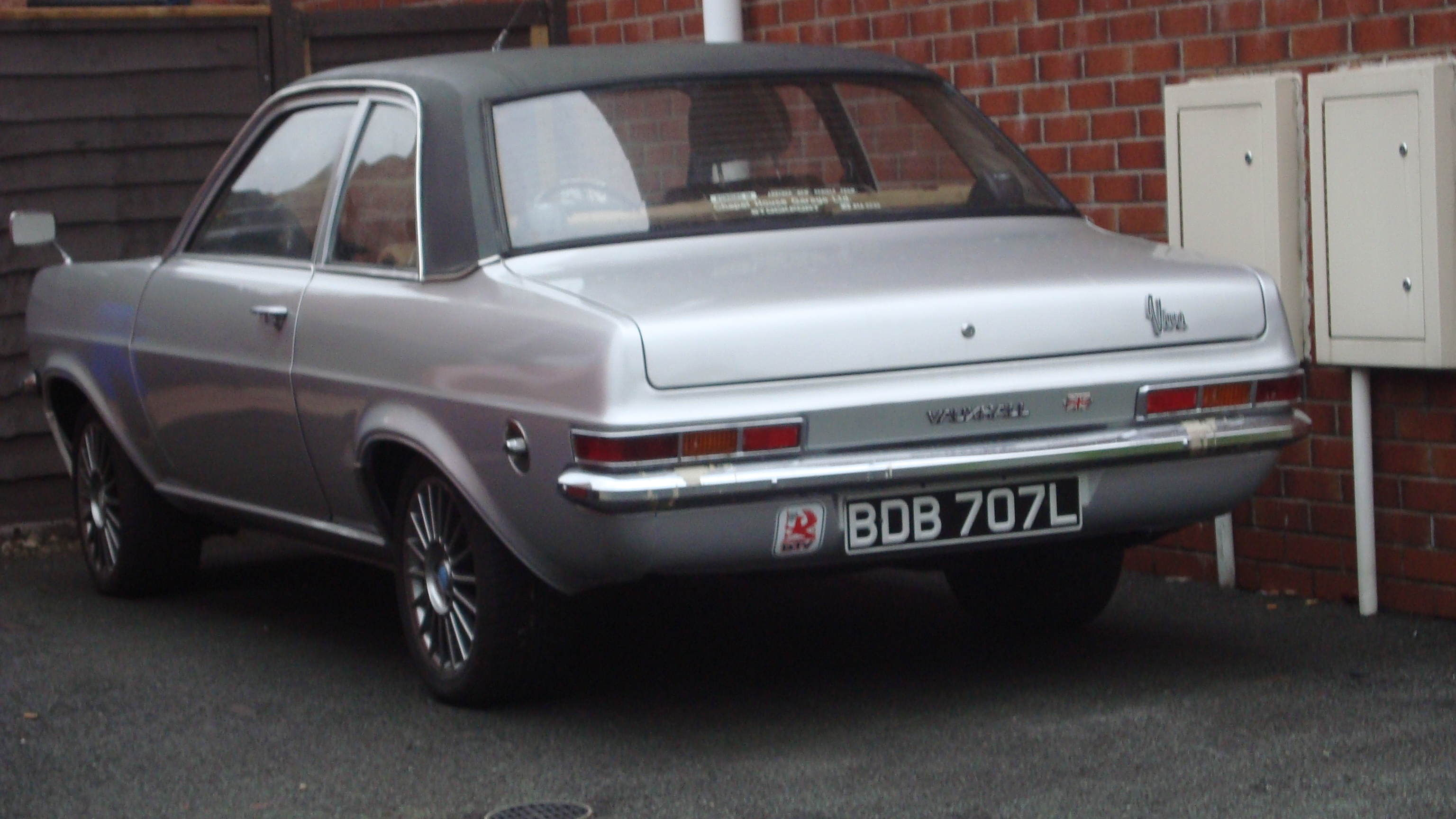 This was a surprise! don't think the alloys suit this very well but I can't remember the last time I saw a Viva outside of a show